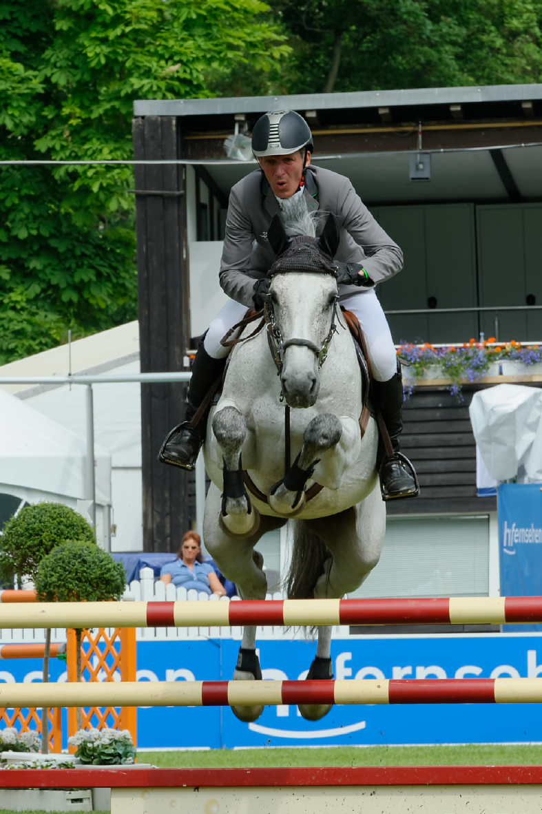 CSIYH* int. Springprüfung nach Strafpunkten und Zeit Internationales Pfingstturnier Wiesbaden 2015 The making of this document was supported by the Community-Budget of Wikimedia Germany.